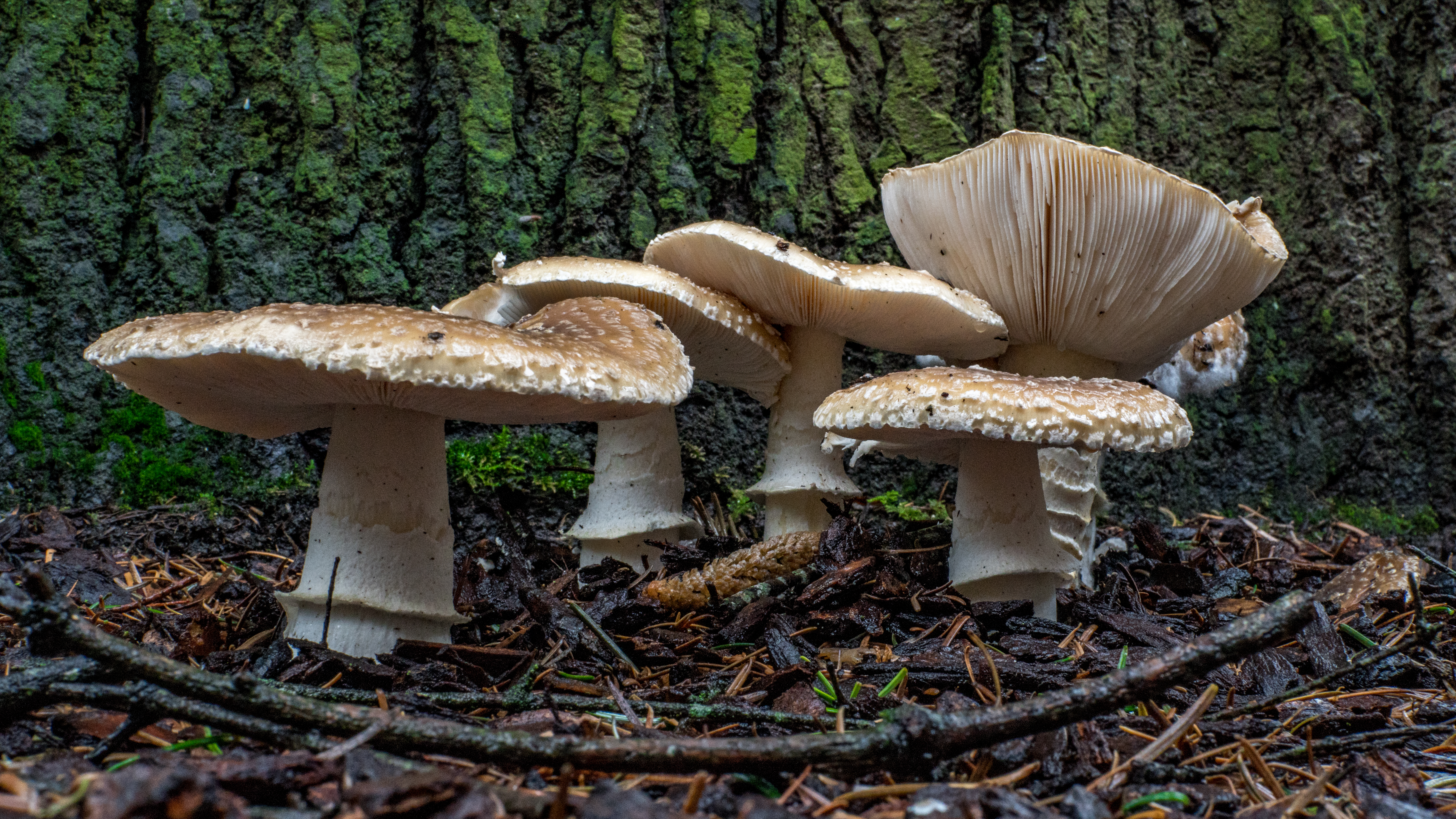 Pacific Northwest variation of Pantherina